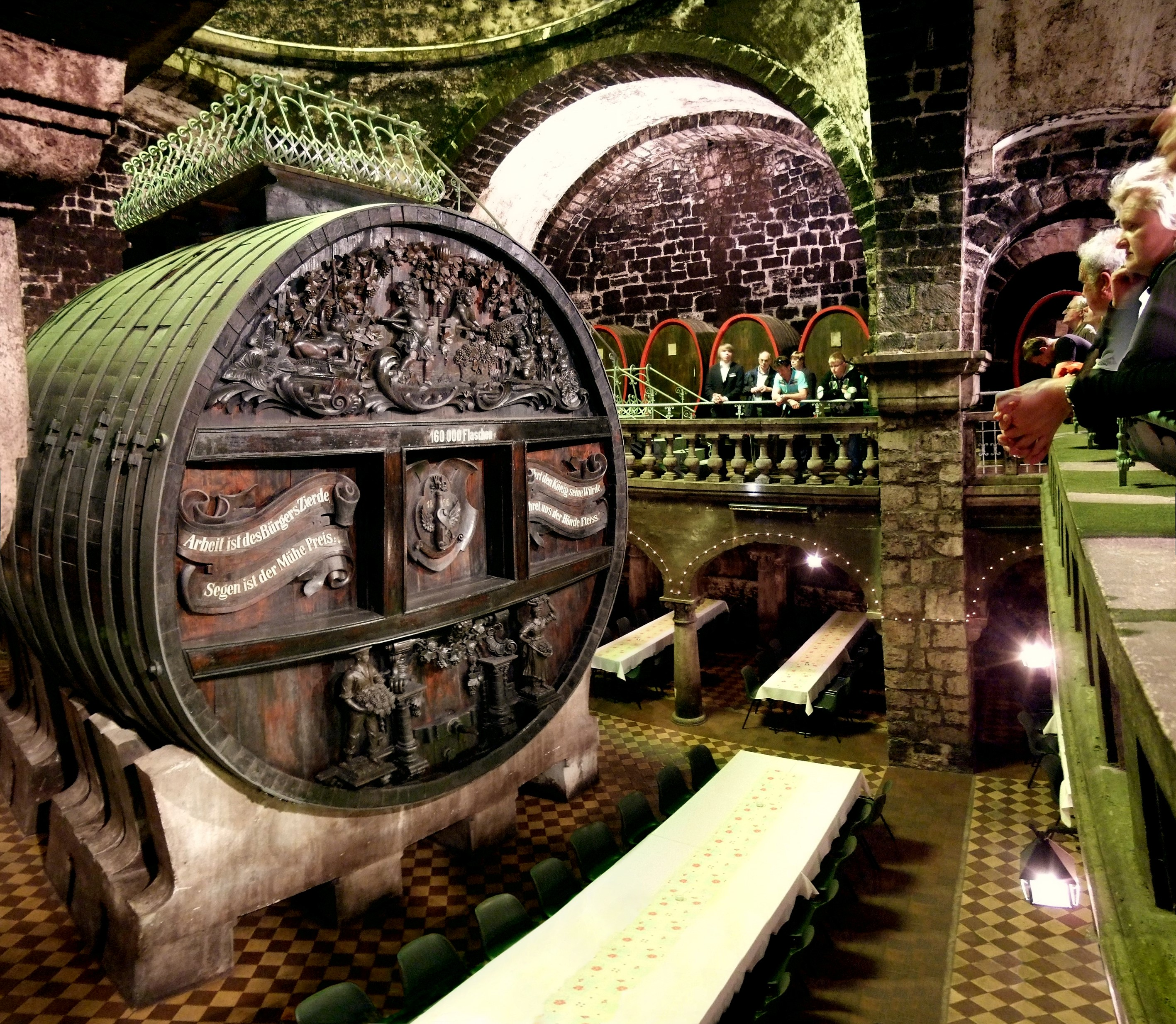 The picture shows the barrel of Rotkäppchen-Sektkellerei